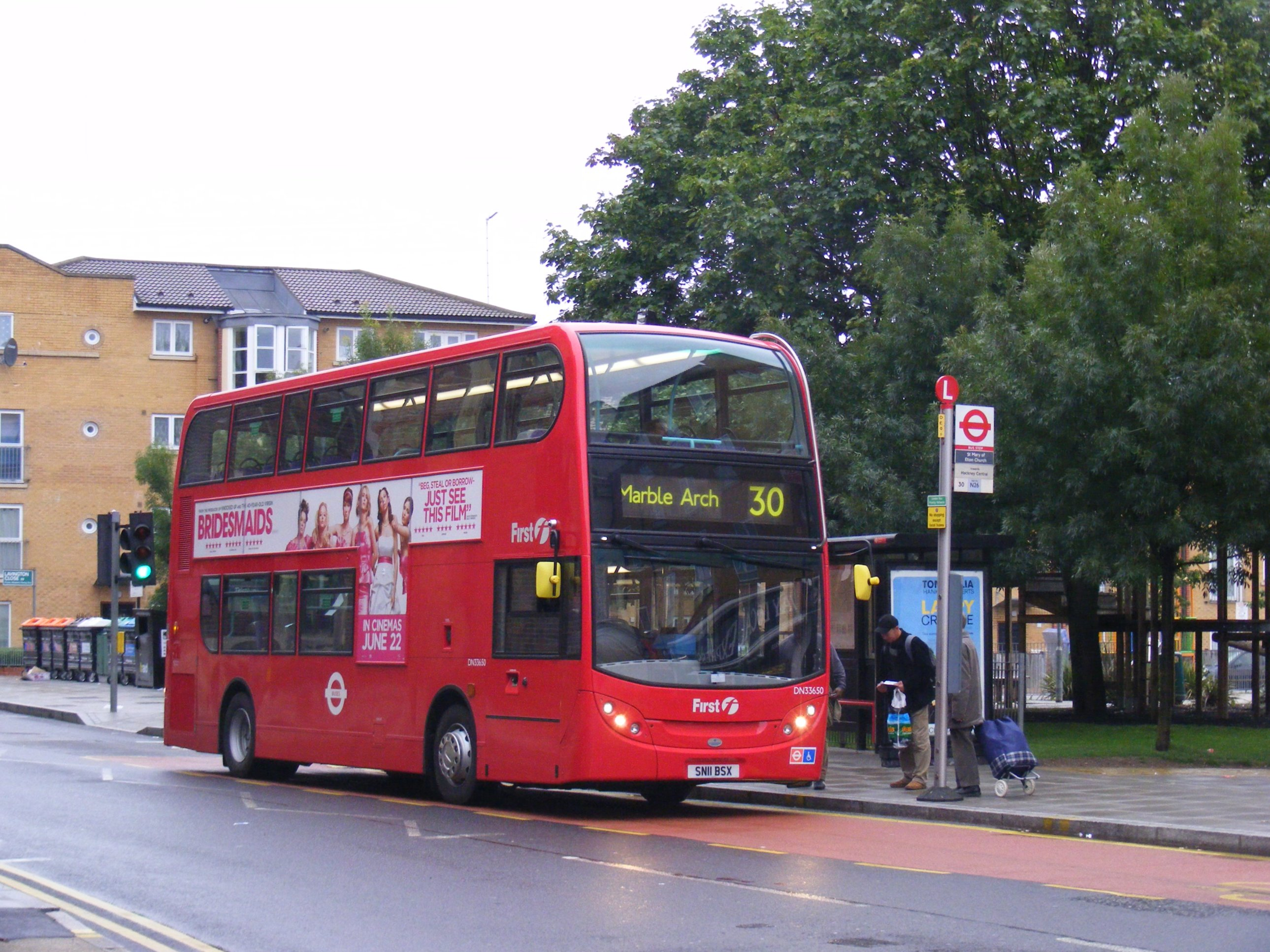 First London takes over the 30 route from Stagecoach. Alexander Dennis Enviro400 DN33650 SN11 BSX picks up its first passengers at St Mary of Eton, Hackney Wick in the early morning, 25 June 2011. (06.41 actually)